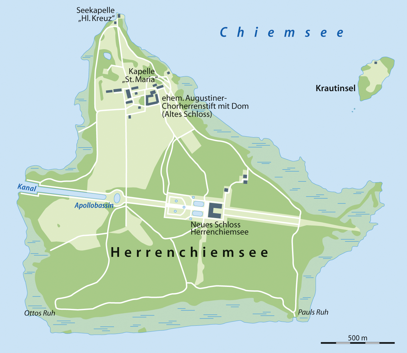 Map of Herrenchiemsee